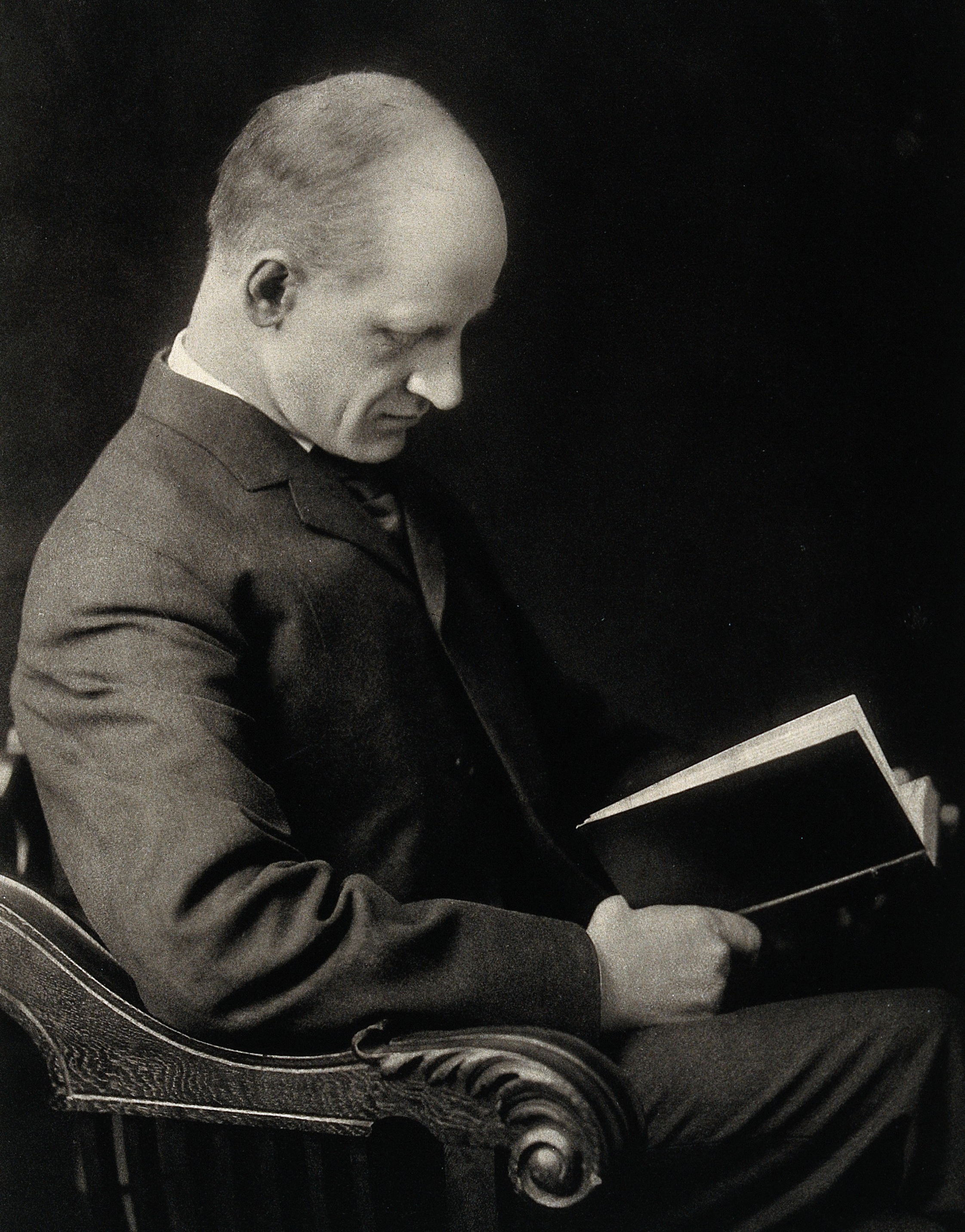 Picture of Dr. R. C. Cabot